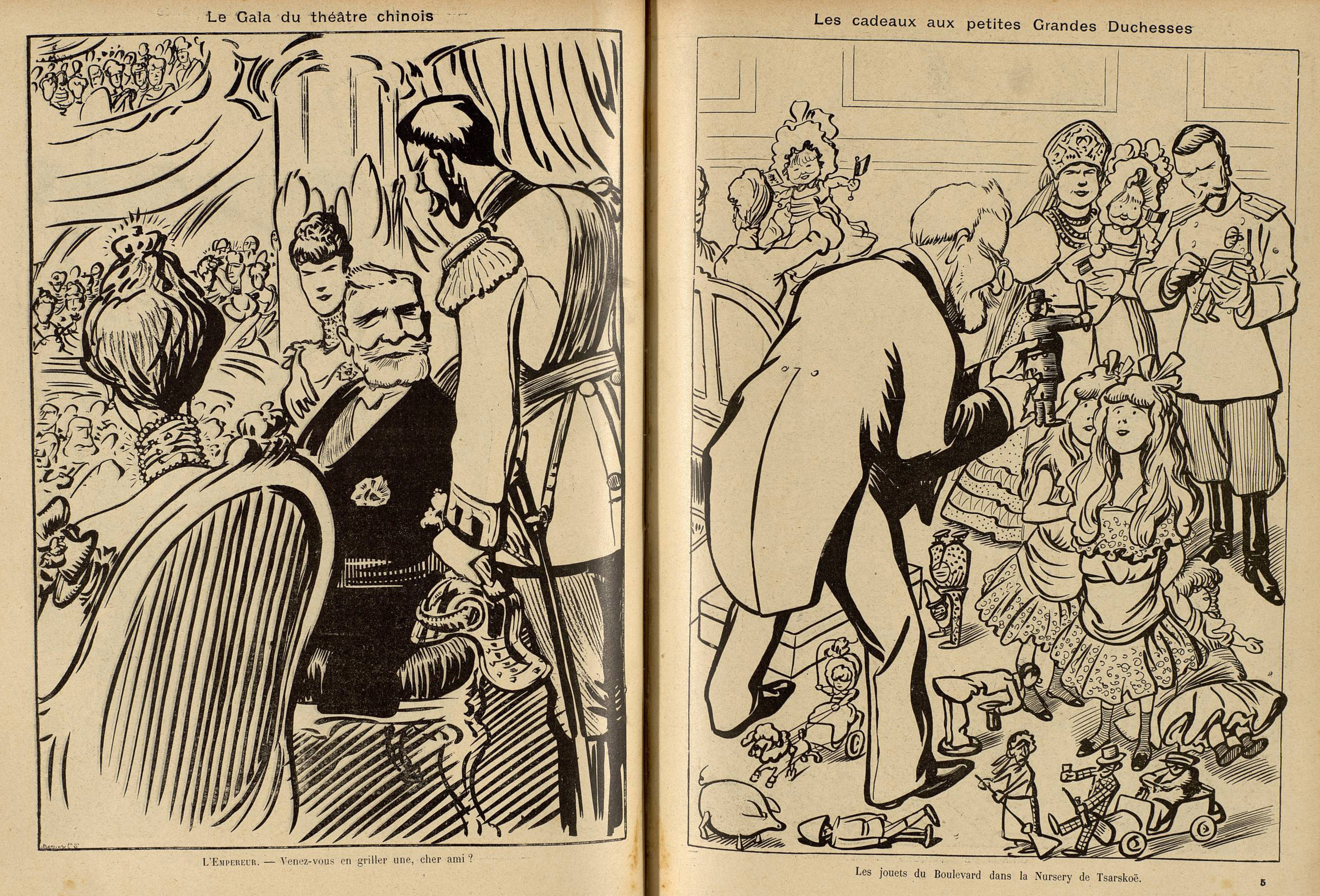 pp 18-19 of "Le Rire" special issue on President Loubet's trip to Russia